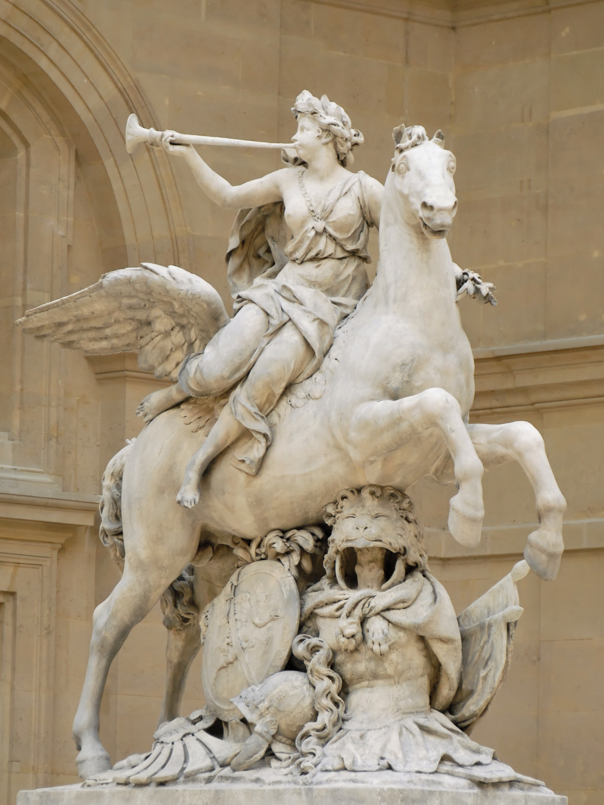 The King's fame riding Pegasus. Carrara marble, 1701-1702. Commissioned in 1699 for the decoration of the park of Marly, transfered in 1719 to the entrance to the Tuileries Gardens, replaced in 1986 by copies.